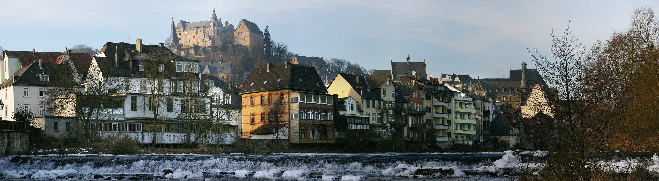 Marburg (Hesse/Germany)